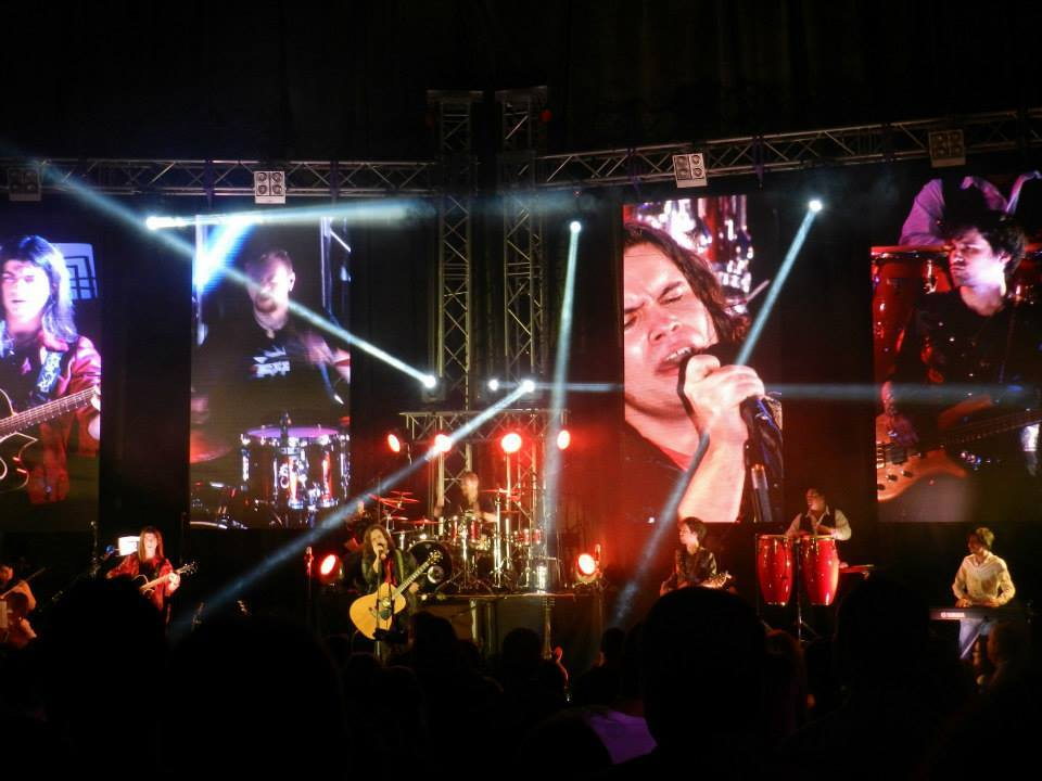 Bosquito performing at Cinema Patria in 2014, public photograph